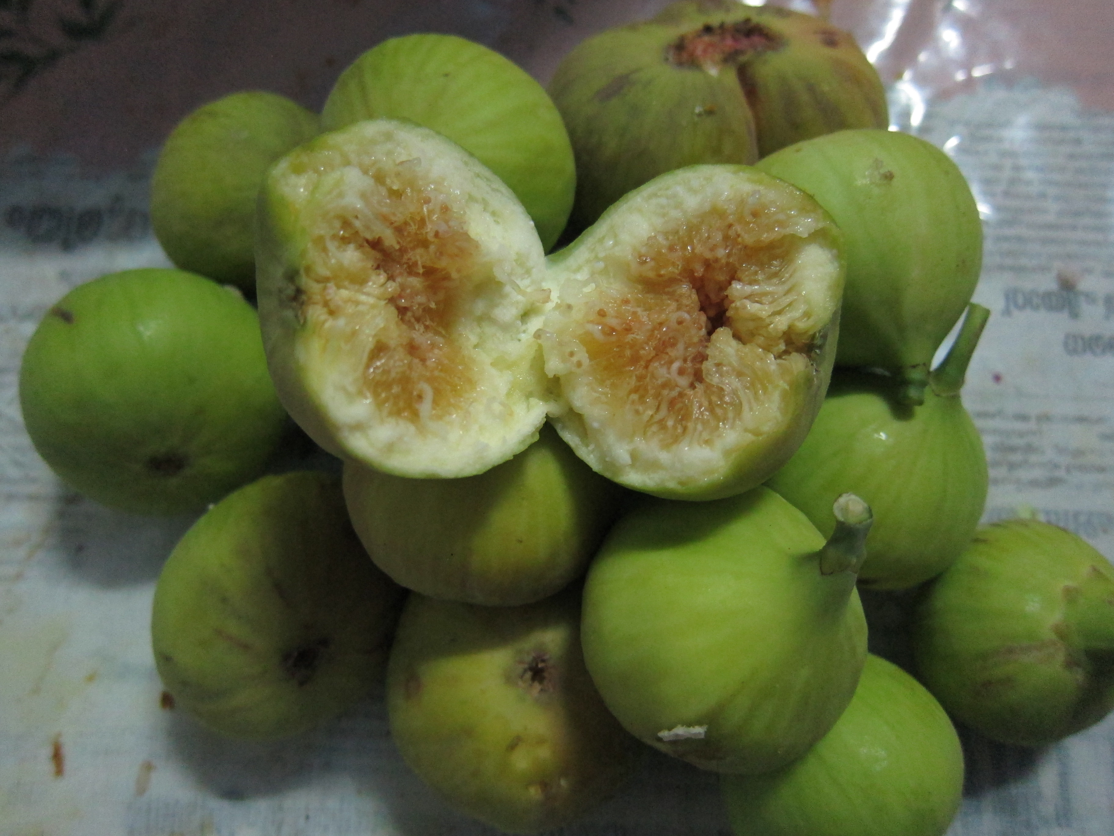 Fig Fruits